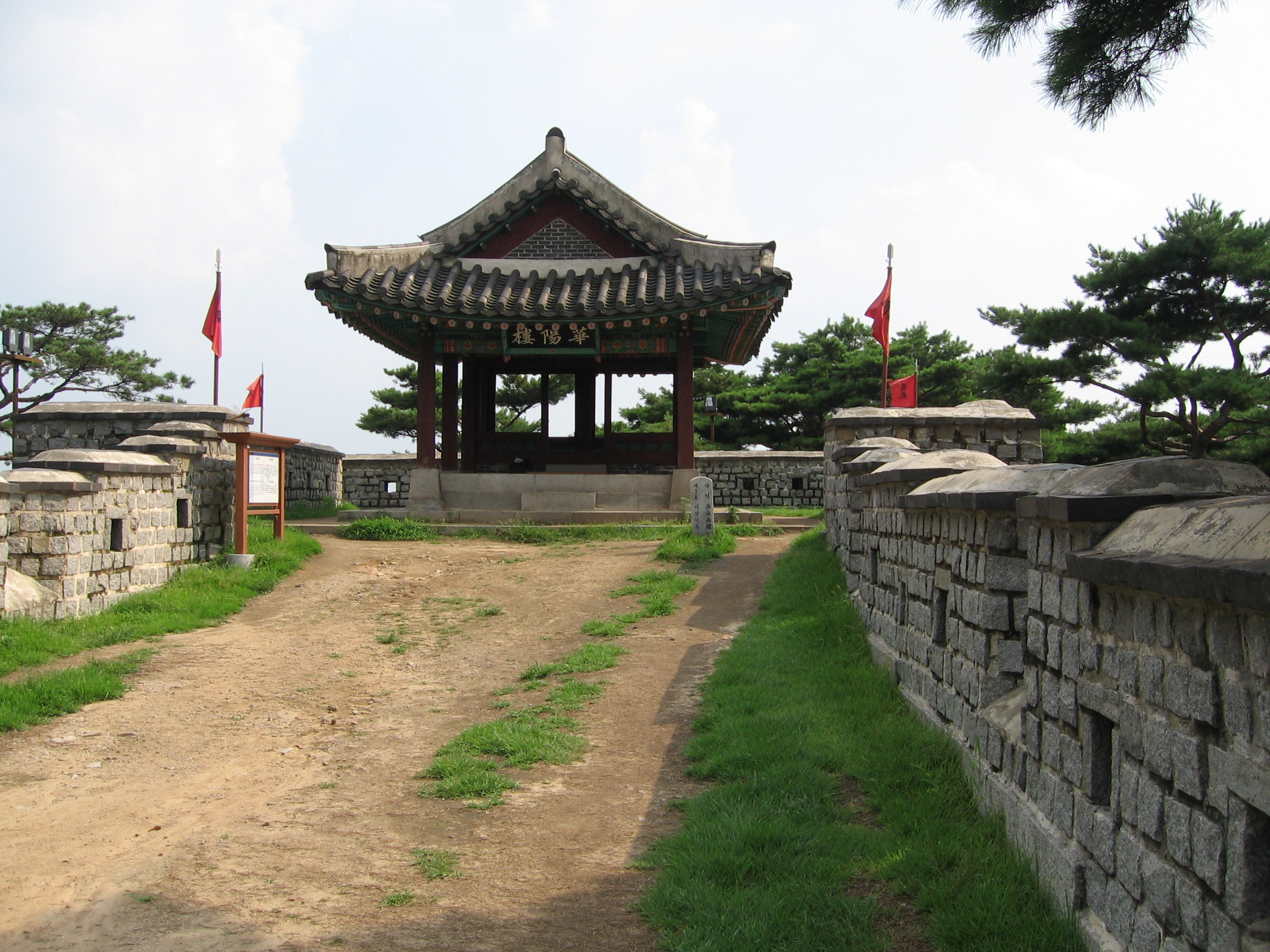 A guard tower of the city wall of Suwon; 2013-04-29: the 'Aussichtsturn' seems to be Seonamgangnu